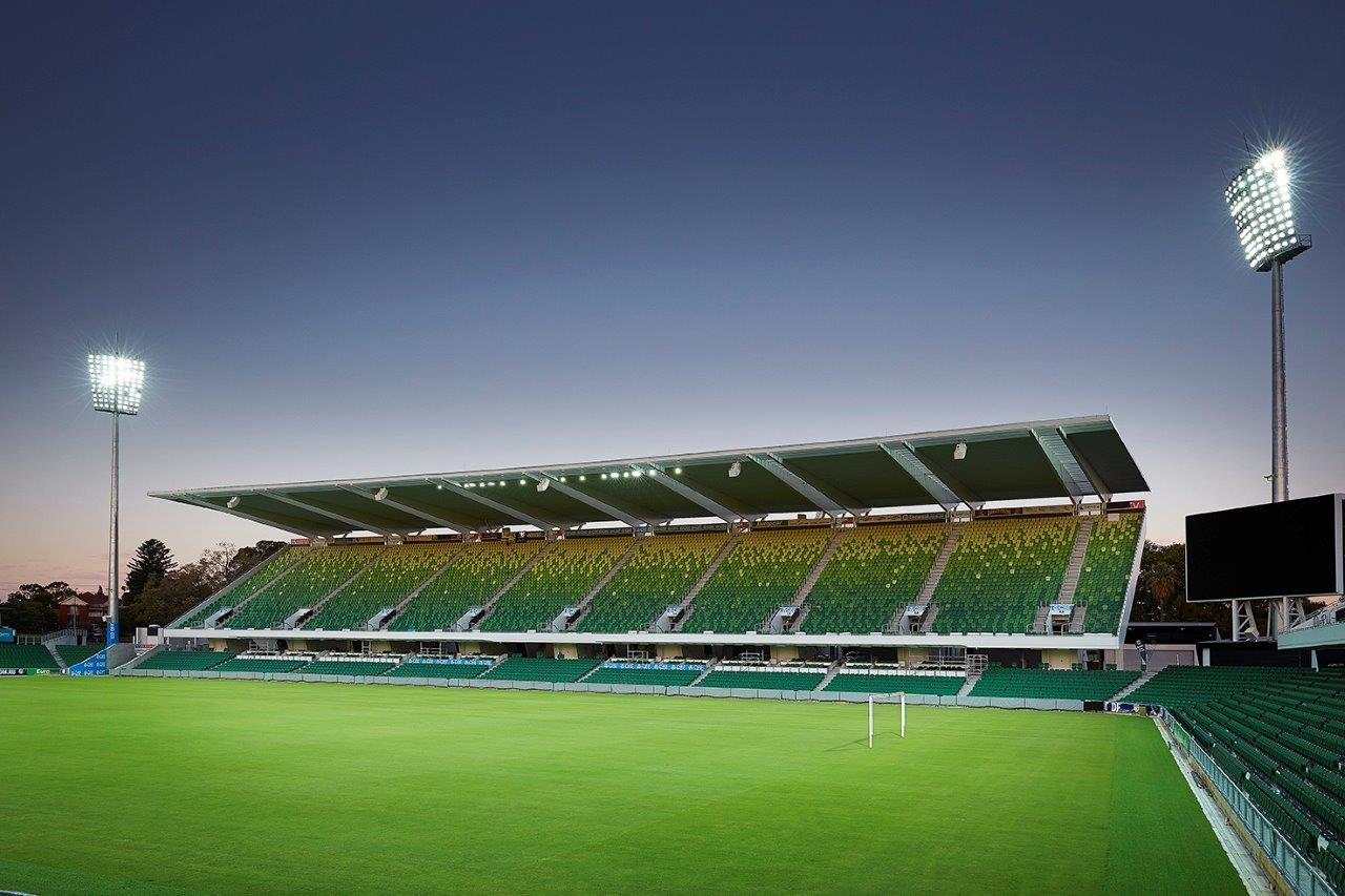 nib stadium